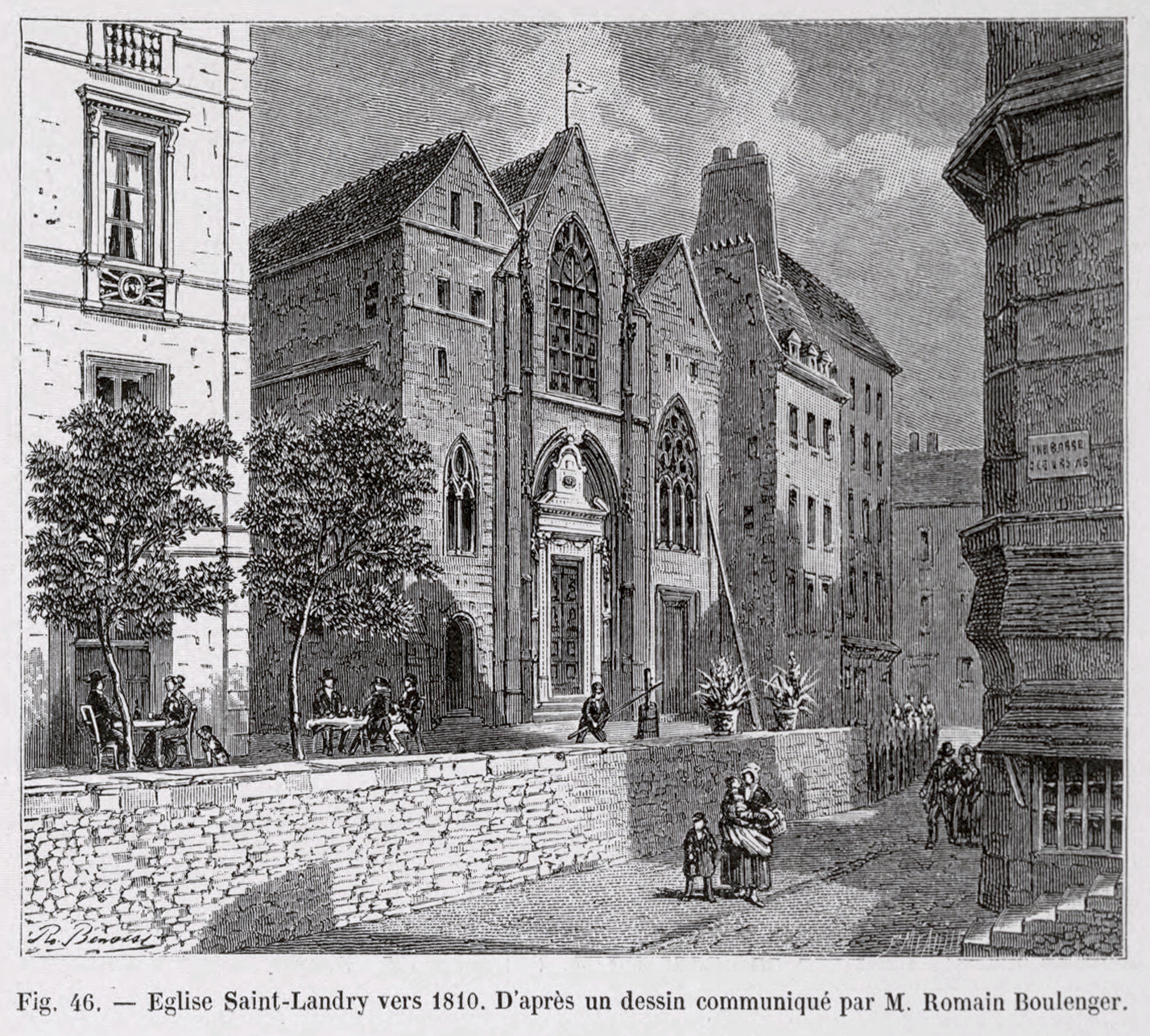 The Saint-Landry church in 1810, as portrayed by Romain Boulenger. Built during the Middle Ages, this small church underwent various architectural changes until its demolition in 1829.